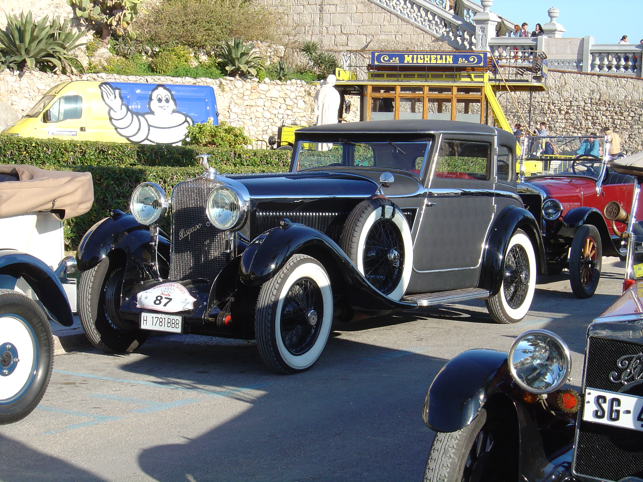 1925 Hispano-Suiza 45 CV type H.6B swb; one of two built in this configuration. Wears 1928 Freestone & Webb coachwork